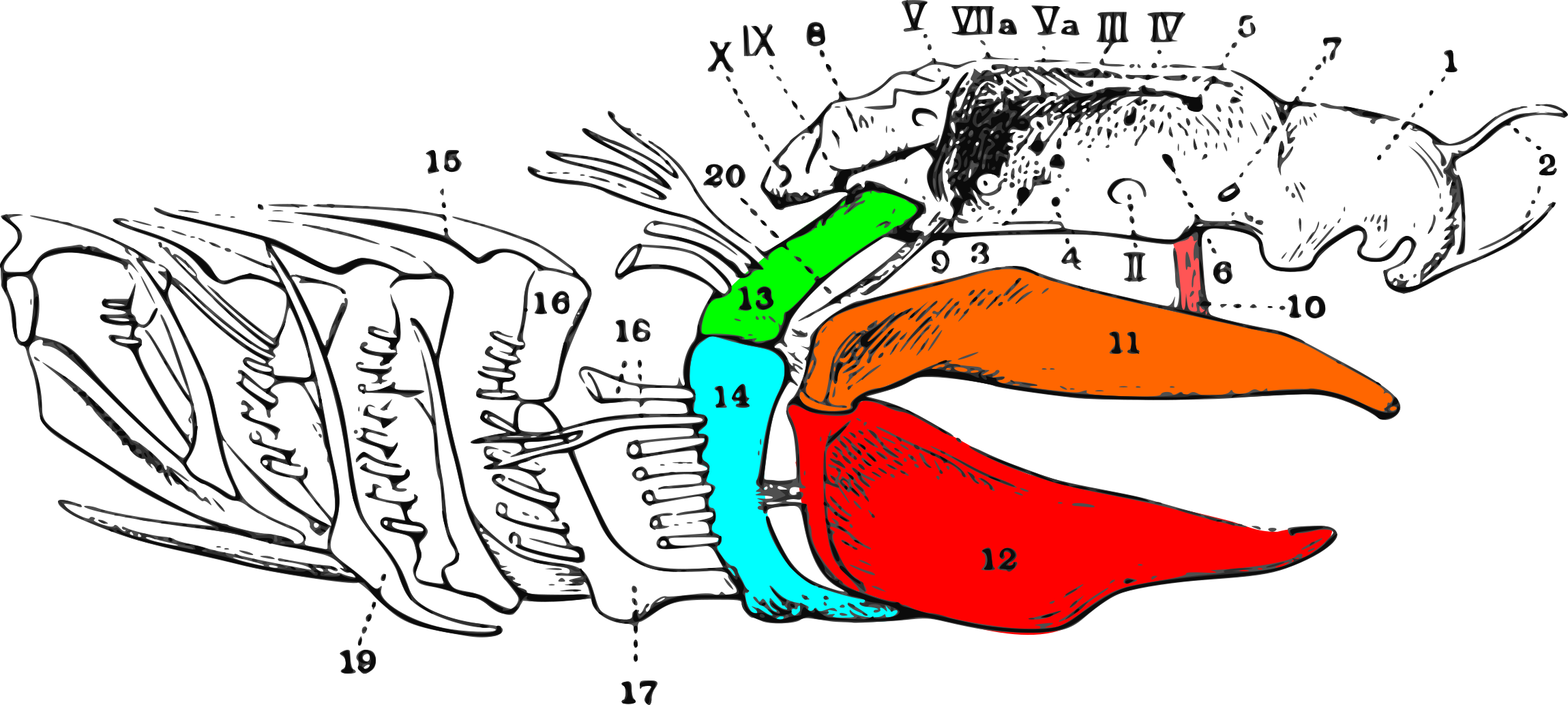 Modified from Reynolds, S. H. (1913). The Vertebrate Skeleton. University Press. Lateral view of the skull of a Dogfish (Scyliorhinus stellaris) 1. nasal capsule. 10. ethmo-palatine ligament. 2. rostrum. 11. palato-pterygo-quadrate bar. 3. interorbital canal. 12. Meckel's cartilage. 4. foramen for hyoidean artery. 13. hyomandibular. 5. foramen for the exit of the 14. cerato-hyal. ophthalmic branches of 15. pharyngo-branchial. Vth and VIIth nerves. 16. epi-branchial. 6. foramen through which the 17. cerato-branchial. external carotid leaves the 18. gill filaments, nearly all have orbit. been cut off short for the 7. orbitonasal foramen. sake of clearness. 8. auditory capsule. 19. extra-branchial 9. foramen through which the 20. pre-spiracular ligament. external carotid enters the II. III. IV. V. Va. VIIa. foramina